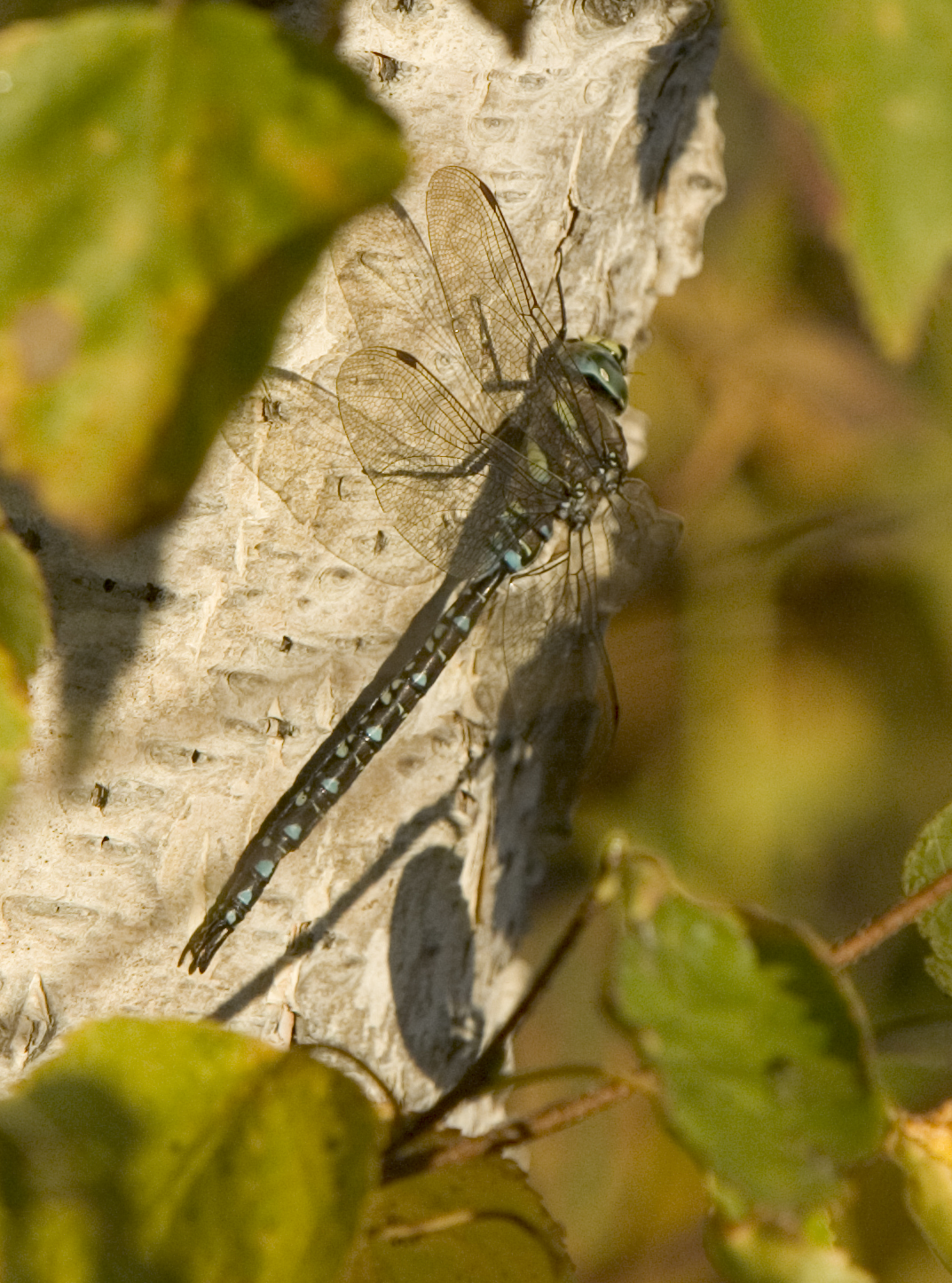 Paddle-tailed Darner (Aeshna palmata)